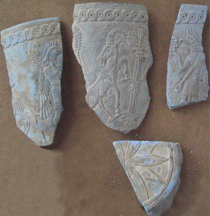 Lapis lazuli, Hasanlu, 1st mil BC. National Museum of Iran.